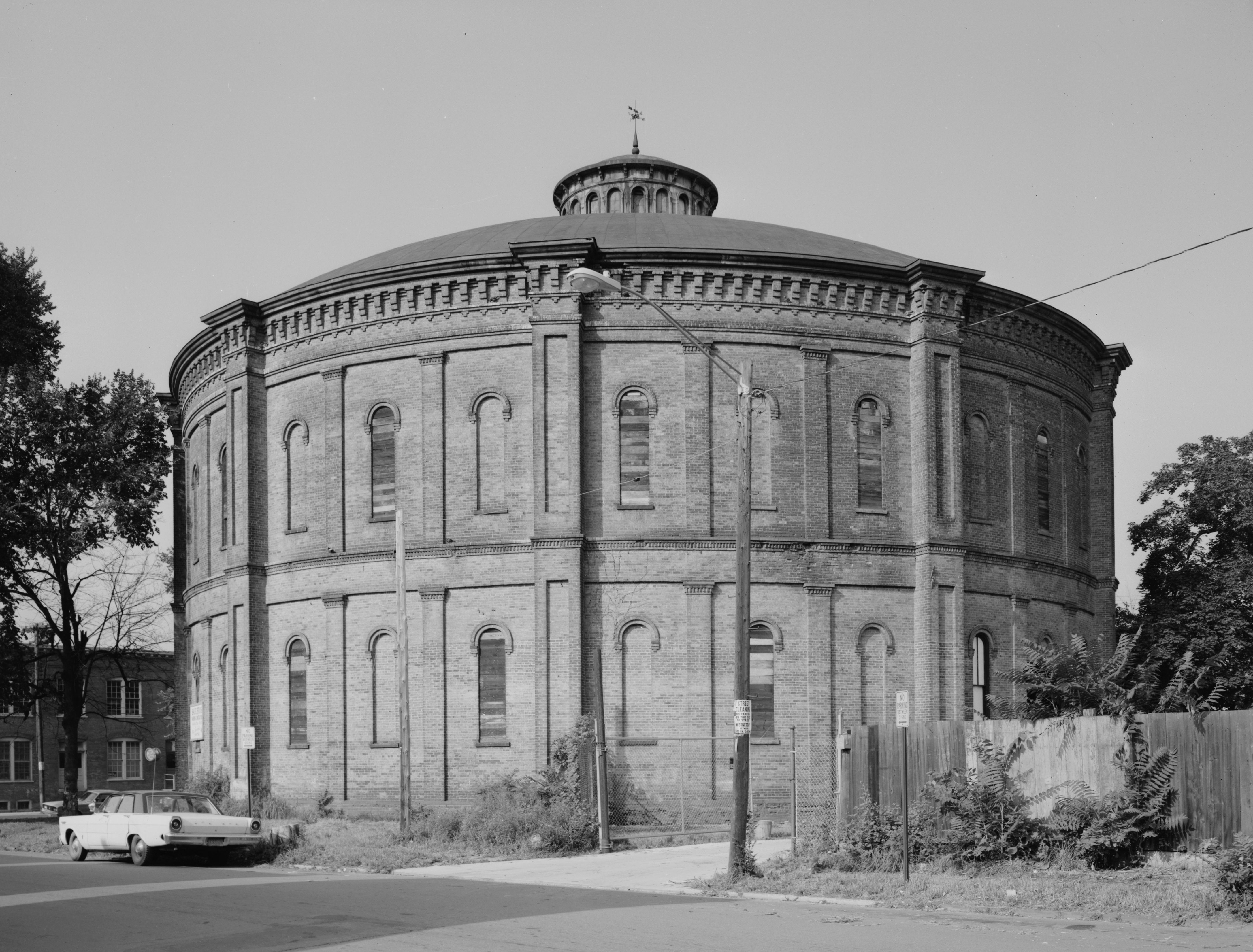 Troy Gas Light Company, Gasholder House, Jefferson Street & Fifth Avenue, Troy (Rensselaer County, New York)